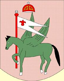 Kingdom of Kakheti coat of arms